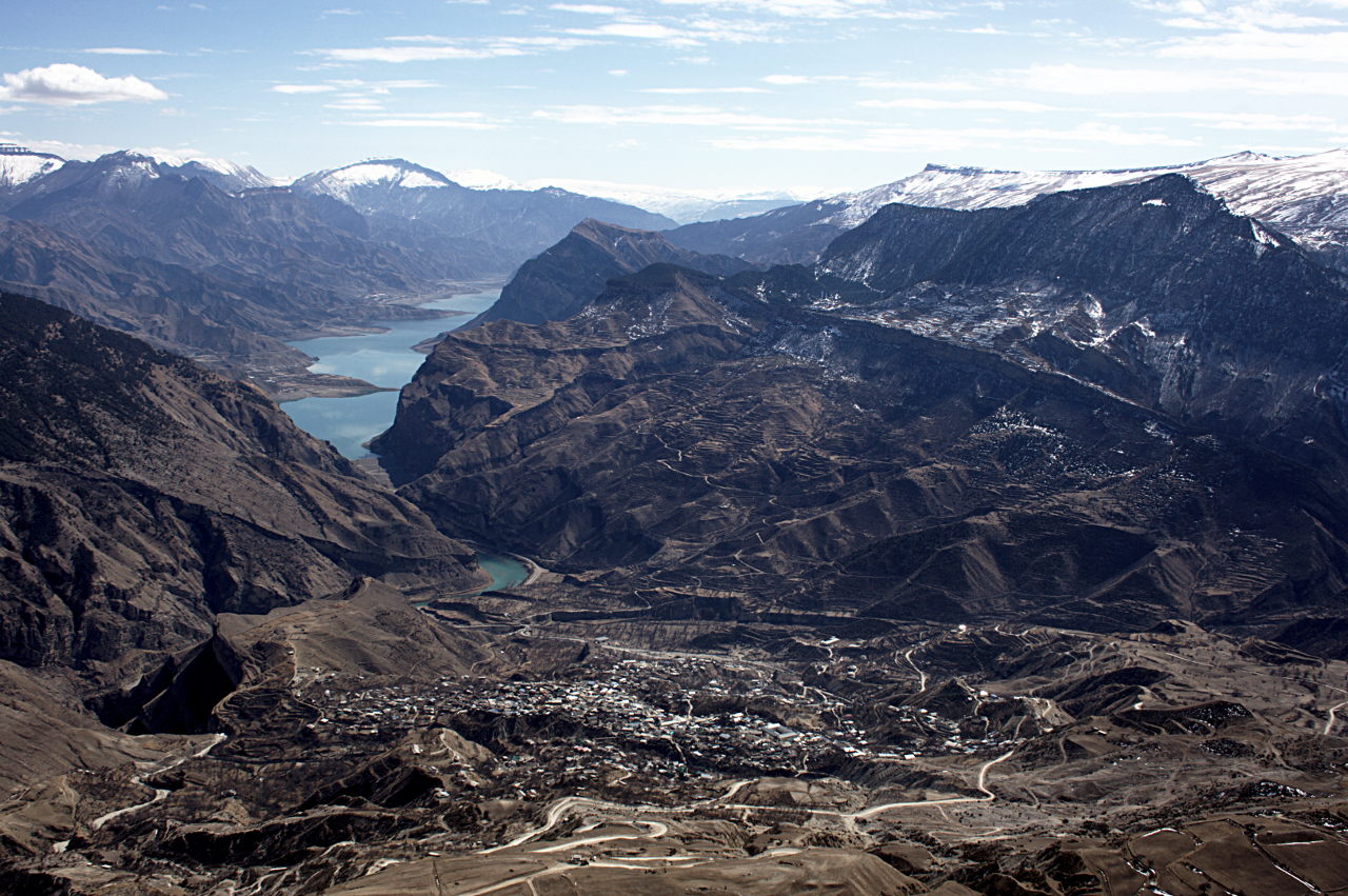 с.Унцукуль, Дагестан